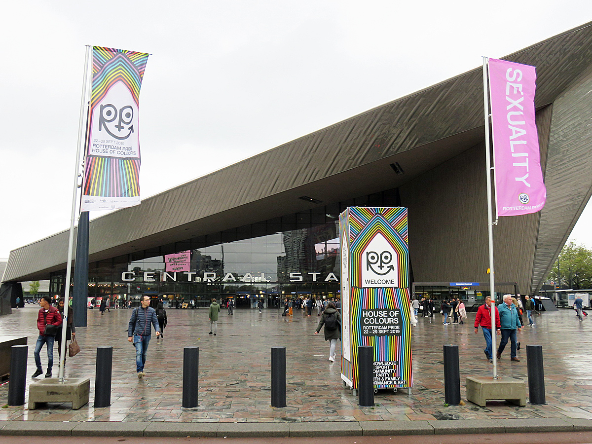 Banners for Rotterdam Pride 2019 at the square in front of Rotterdam Central Station